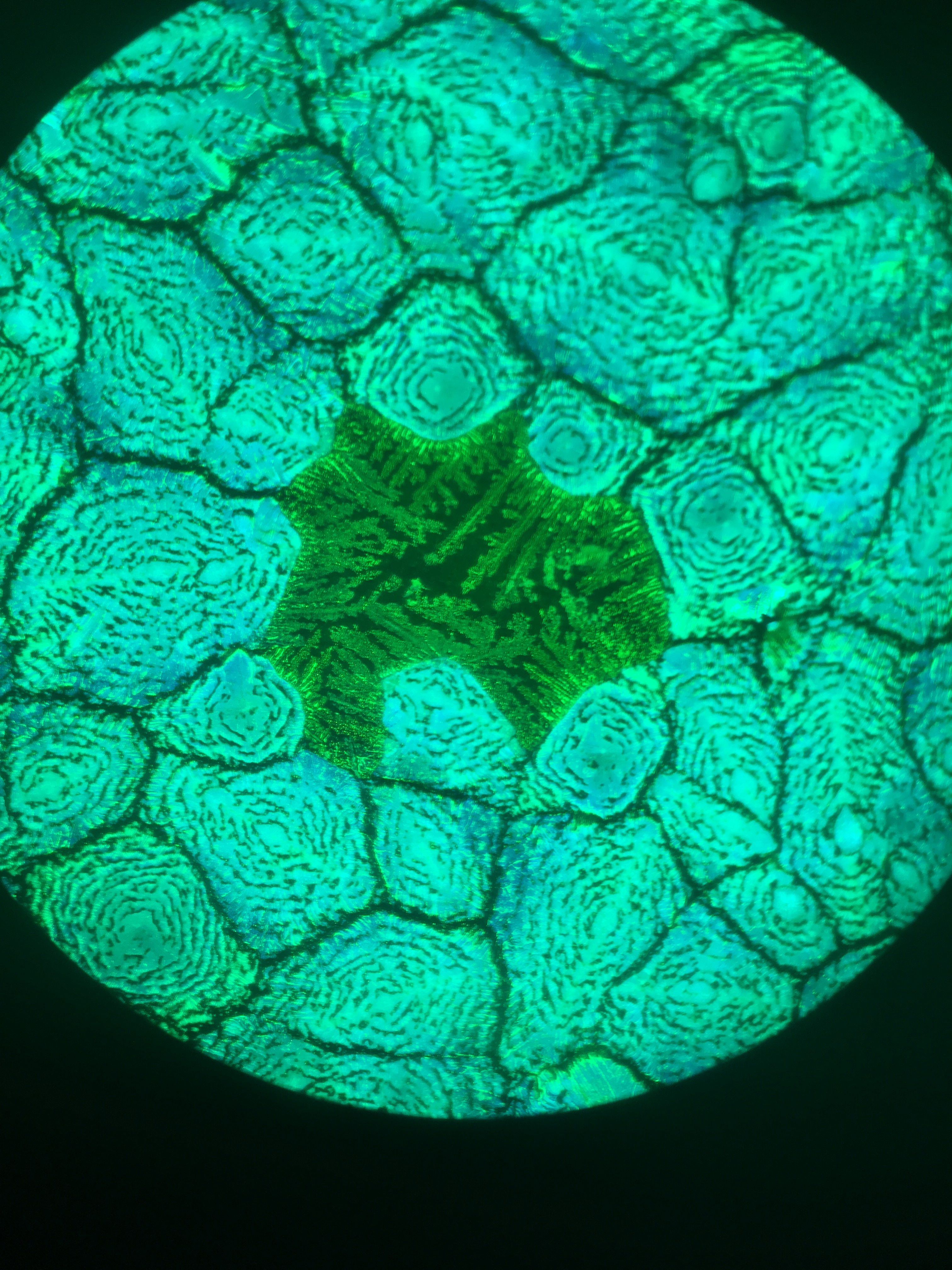 Nowadays lead halide perovskite materials are one of the most rapidly developed area in material science and physics. Perovskites are able to emit strong lumenescence due to their high internal photoluminescence quantum yield. Due to their emitting abilities and photon to current conversion they are interesting for solar cell and light emitting devices.